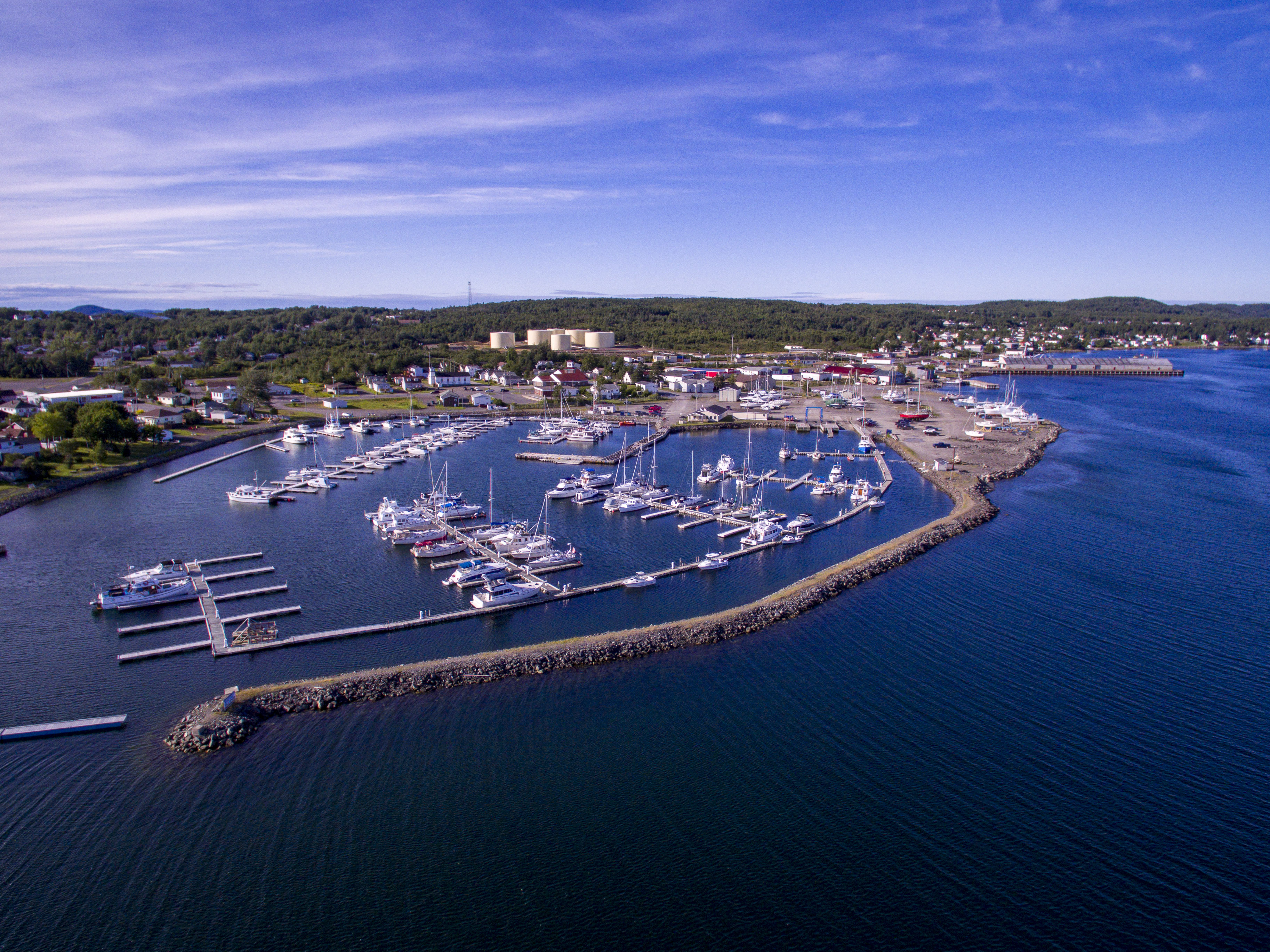 Downtown Lewisporte Newfoundland with a prominent view of the Marina.